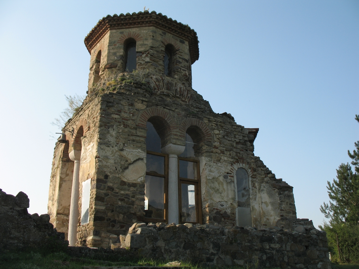 Stara (Old) Pavlica church,dated in pre-Nemanjić times,in Pavlica,Raška municipality,Serbia.